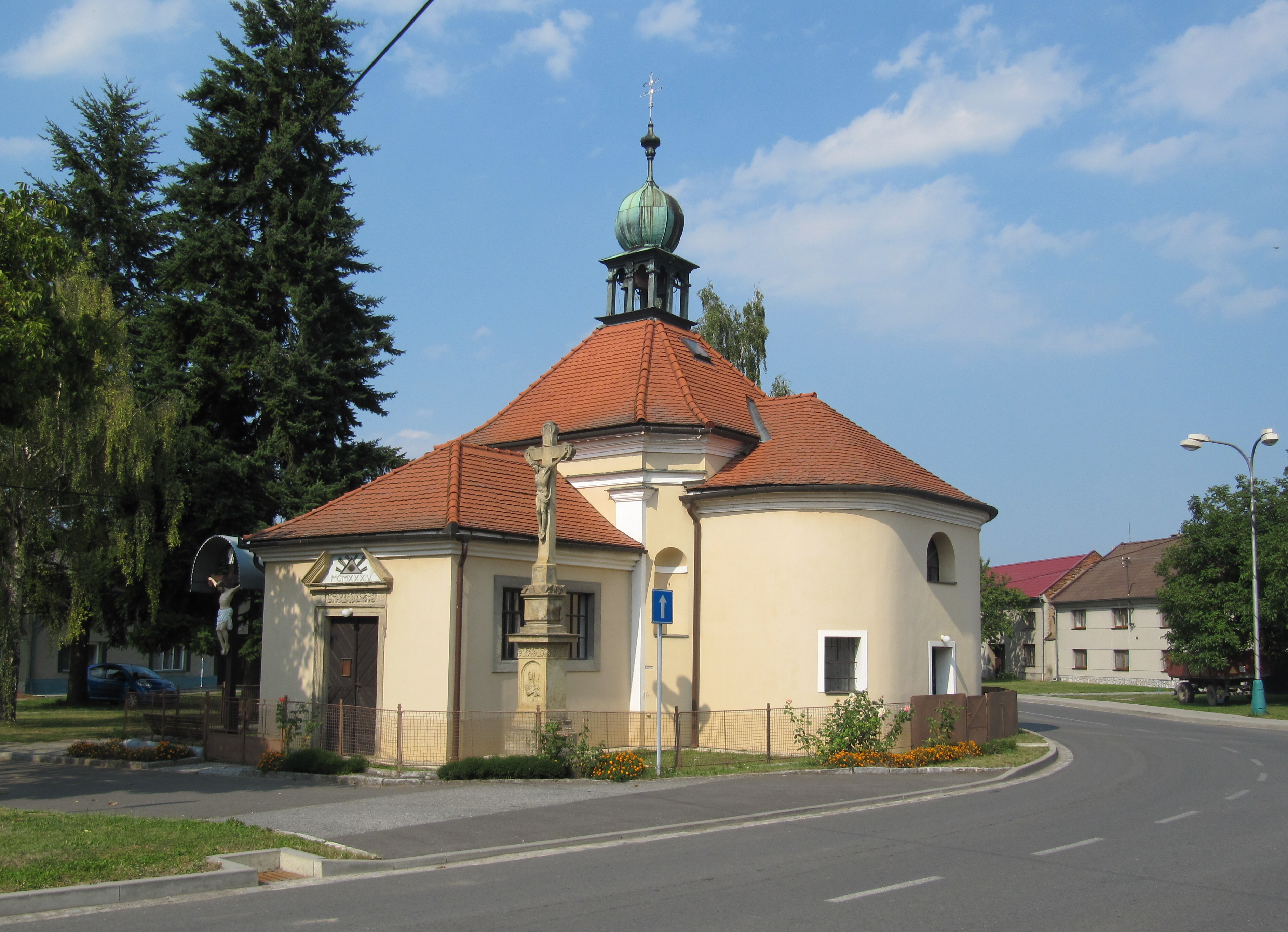 Loučany in Olomouc District, Czech Republic. Chapel of St. Florian and Isidore from 1724, expanded and corrected in 1934.